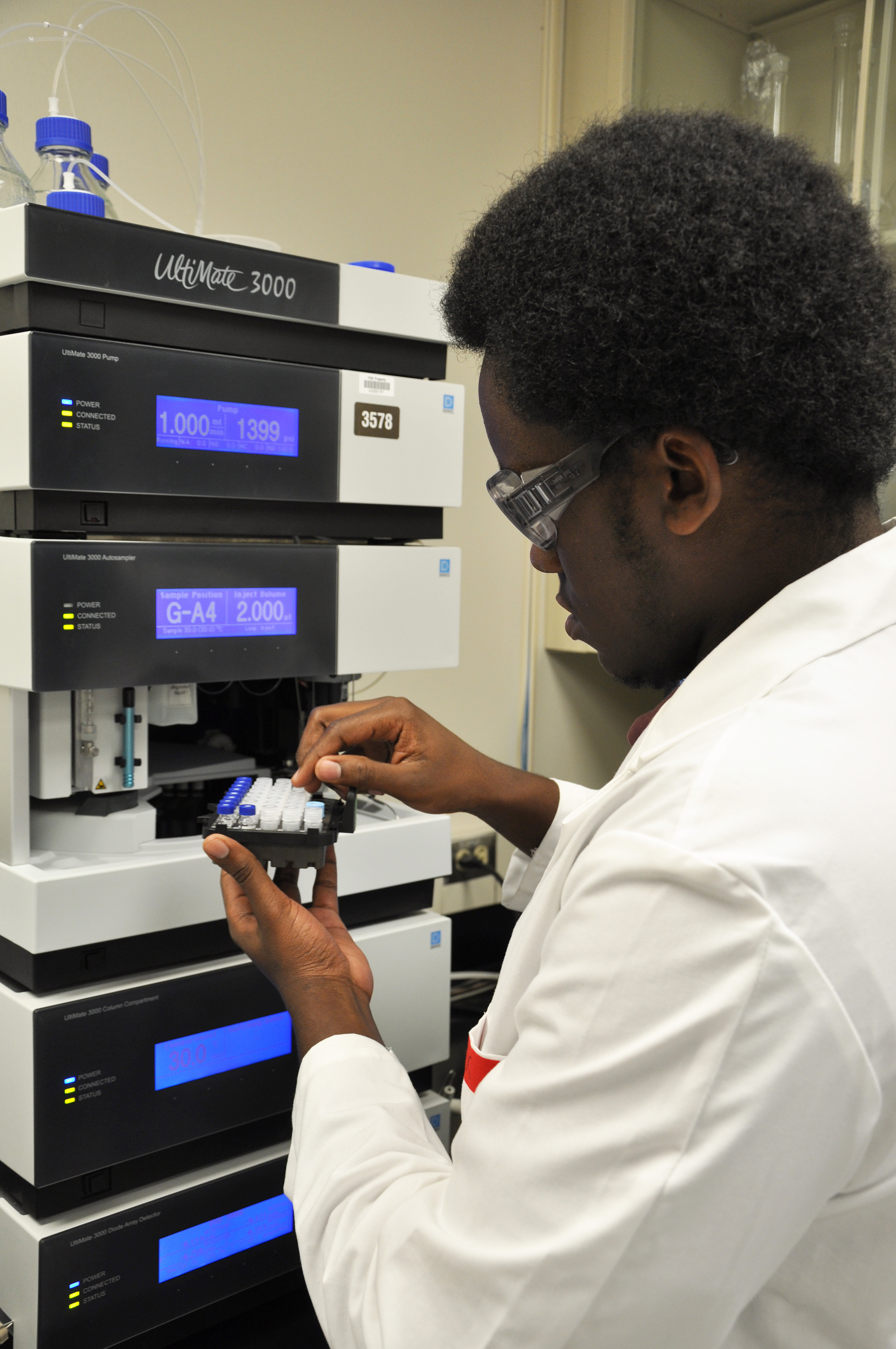 Biochemical Toxicology scientist loading a sample in HPLC. The National Center for Toxicological Research (NCTR) is FDA's internationally recognized research center. The unique scientific research expertise of NCTR is critical in supporting FDA product centers and their regulatory science roles. For more about NCTR, read the Consumer Update at